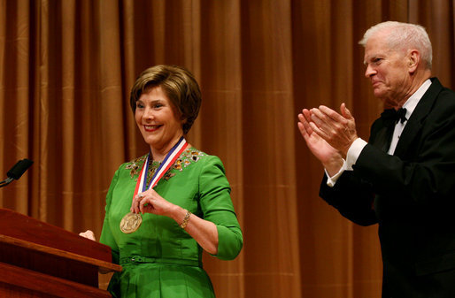 Mrs. Laura Bush is honored with the Living Legend Medallion by Dr. James Billington, the Librarian of Congress, Friday evening, Sept. 26, 2008 in Washington, D.C., during the 2008 National Book Festival Gala Performance.